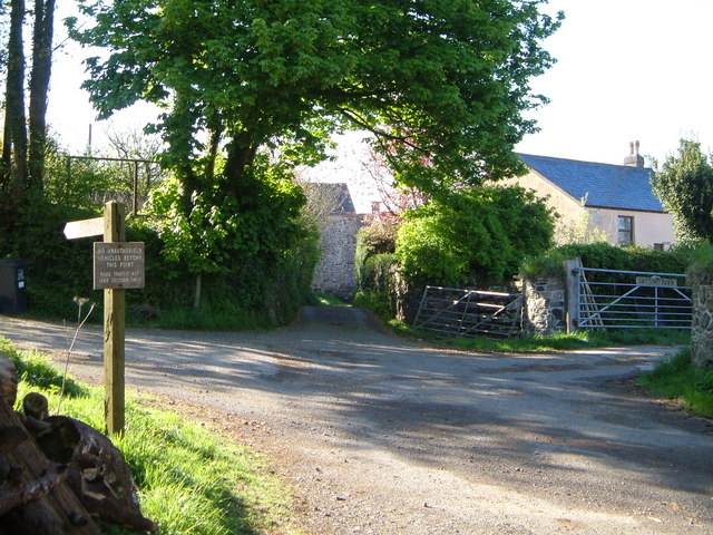 Higher Lutton. A farm under Brent Hill. Taken from the edge of the green where a permissive path climbs a track up the hill to the left.